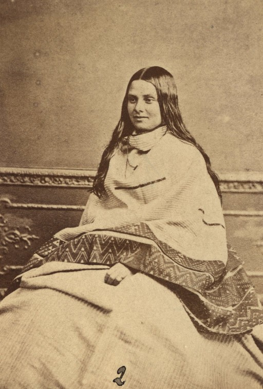 Femme Maori. Young Maori woman wearing flax garment with taniko borders.